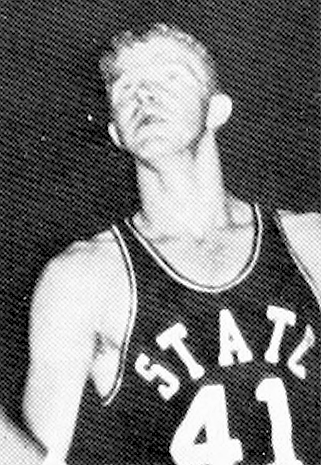 Vic Rouse (#40), a junior forward for the Loyola Ramblers, shoots over Aubrey Nichols (#43), a junior for the Mississippi State Bulldogs, in the historic "Game of Change" during the regional semifinals of the 1963 NCAA University Division Basketball Tournament. Also visible in the background is Mississippi State's W. D. "Red" Stroud (#41).This photo was scanned from the 1963 edition of the Loyolan, the yearbook of Loyola University Chicago. It appeared on page 315 with the caption, "Vic Rouse soars high for a basket against Mississippi State in Regional Semi-finals."